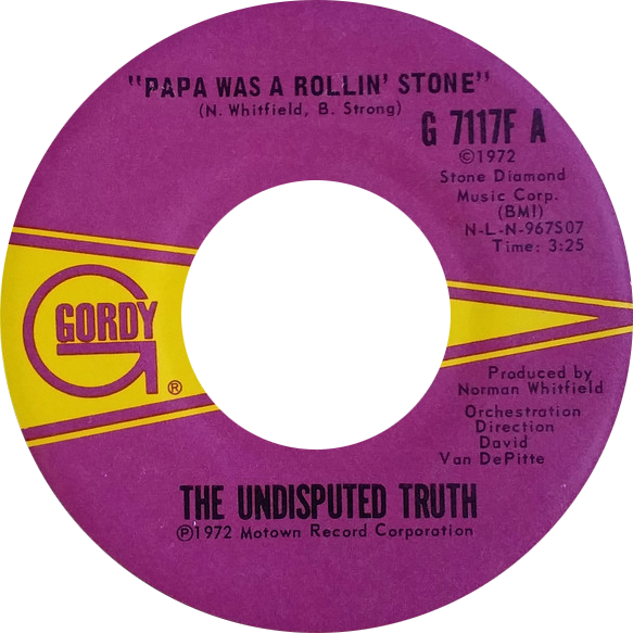 One of side-A labels of the US vinyl single "Papa Was a Rollin' Stone" by The Undisputed Truth